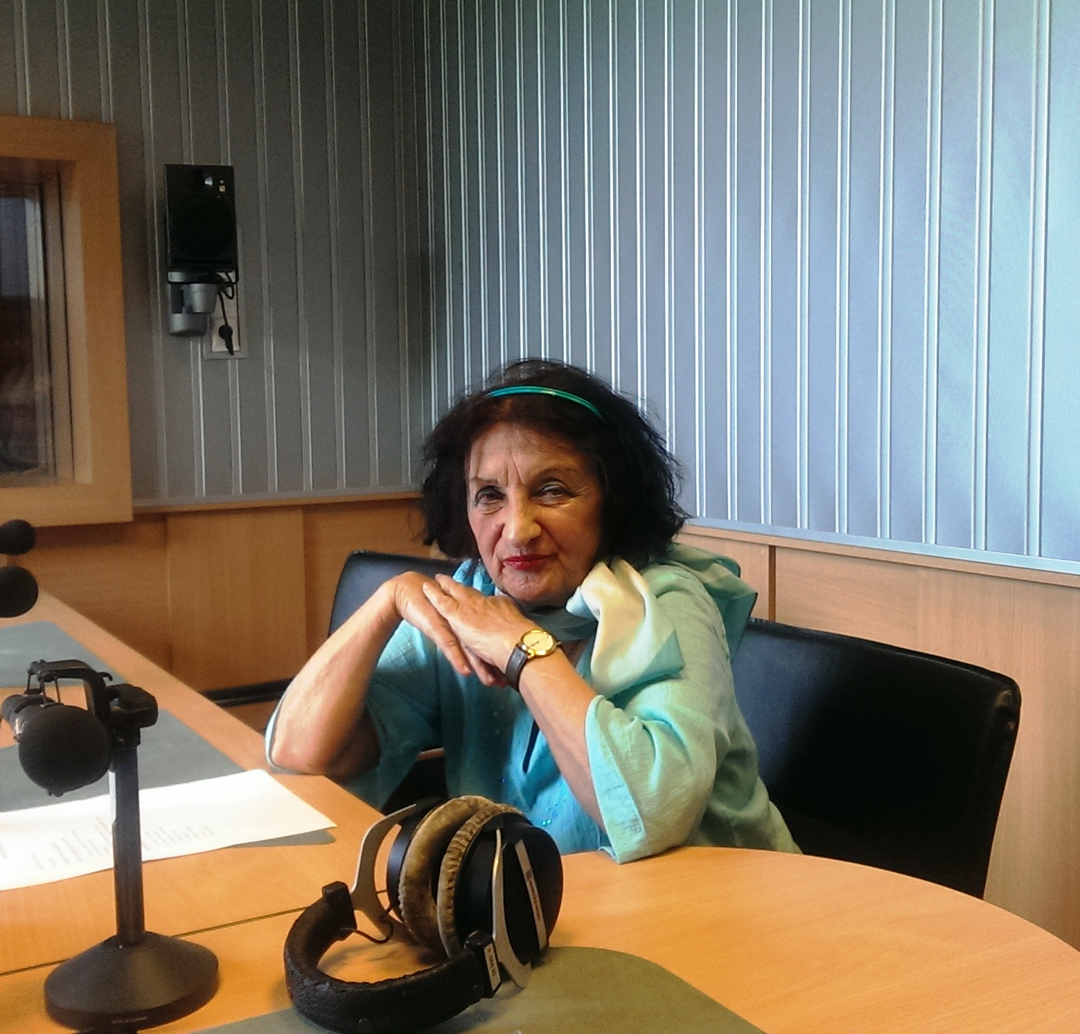 Mimi Nikolova